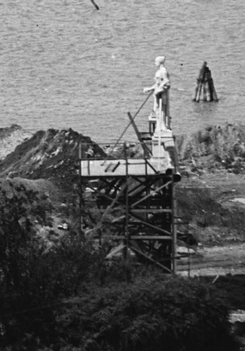 Statuary mock-up erected by the United States Commission of Fine Arts, to assist with judging the height of statuary for the bridge piers and approaches. During construction on the Arlington Memorial Bridge over the Potomac River in Washington, D.C., in the United States. The bridge was constructed from 1925 to 1932. This photo was taken on May 15, 1928.